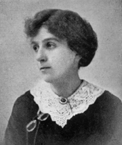 Marjorie Pickthall, from John W. Garvin, ed. Canadian Poets (Toronto: McClelland, Goodchild & Stewart, 1916), 305. George Dance (talk) 05:32, 6 April 2011 (UTC)